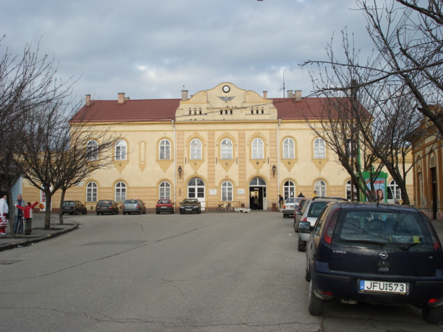 Vac train station, taken Feb 2007 by David Sallay.